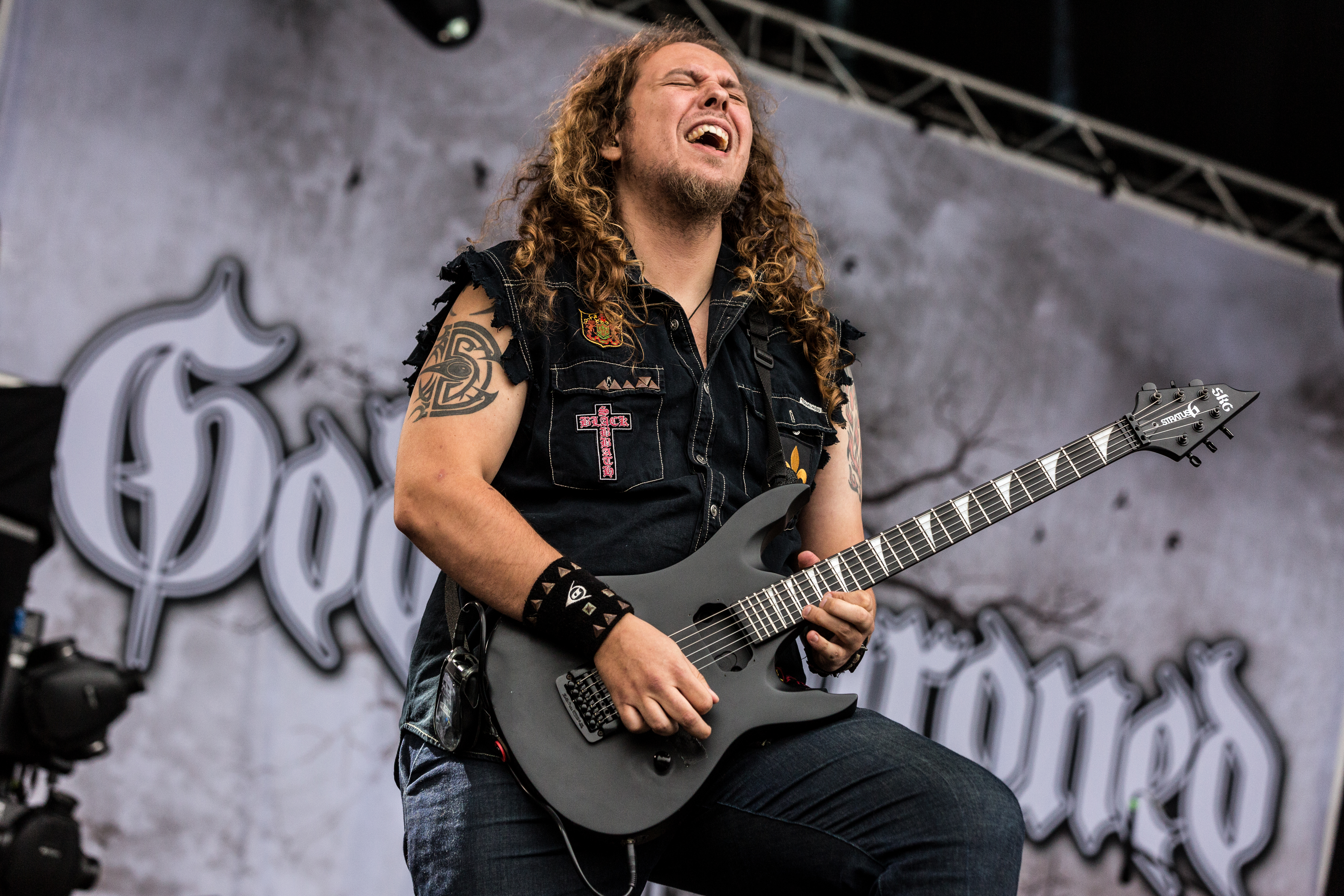 The Dutch blackened death metal band God Dethroned at the Party.San Metal Open Air 2016 in Obermehler-Schlotheim/Germany.